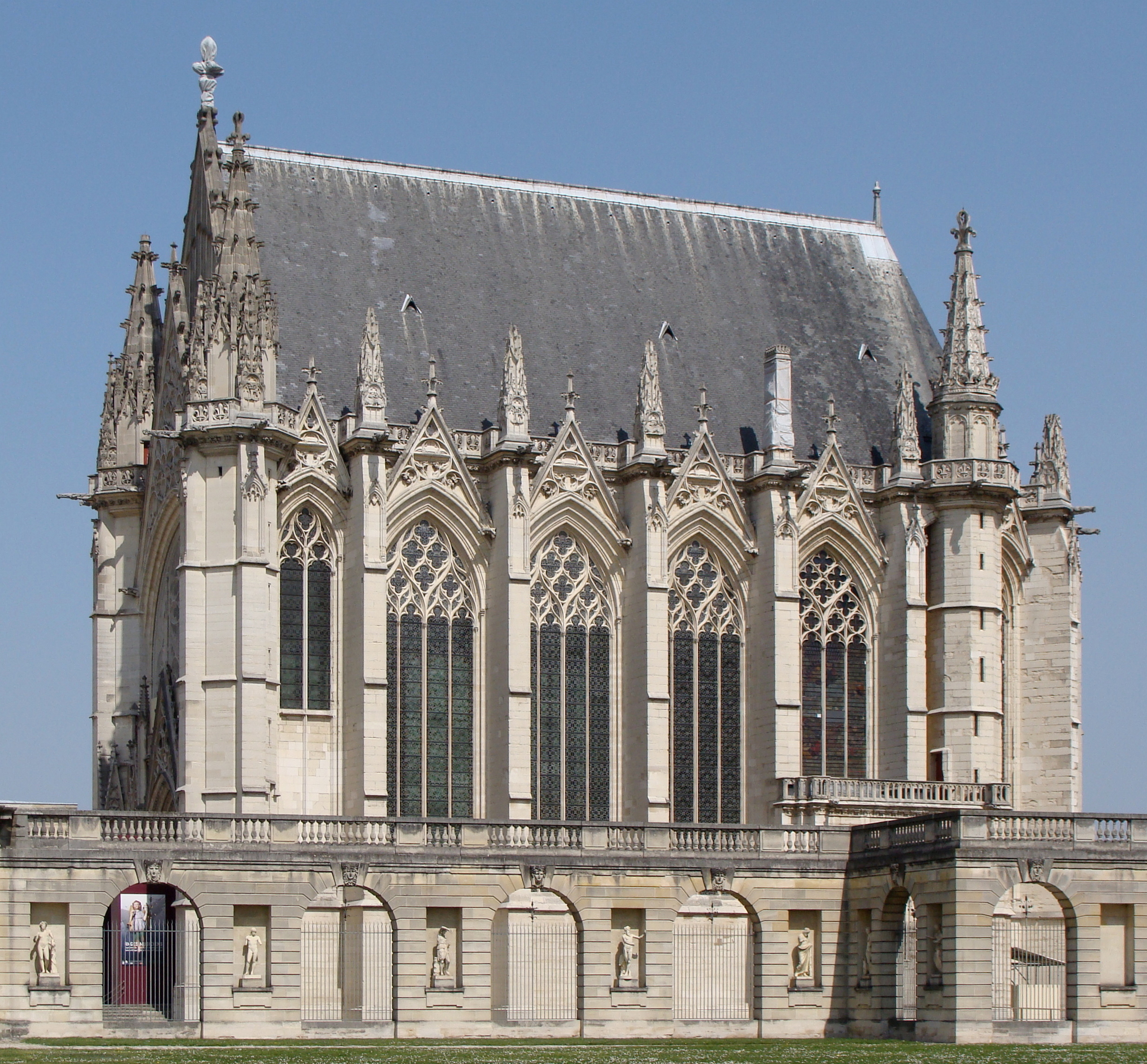 the Holy Chapel of the Château de Vincennes, near Paris